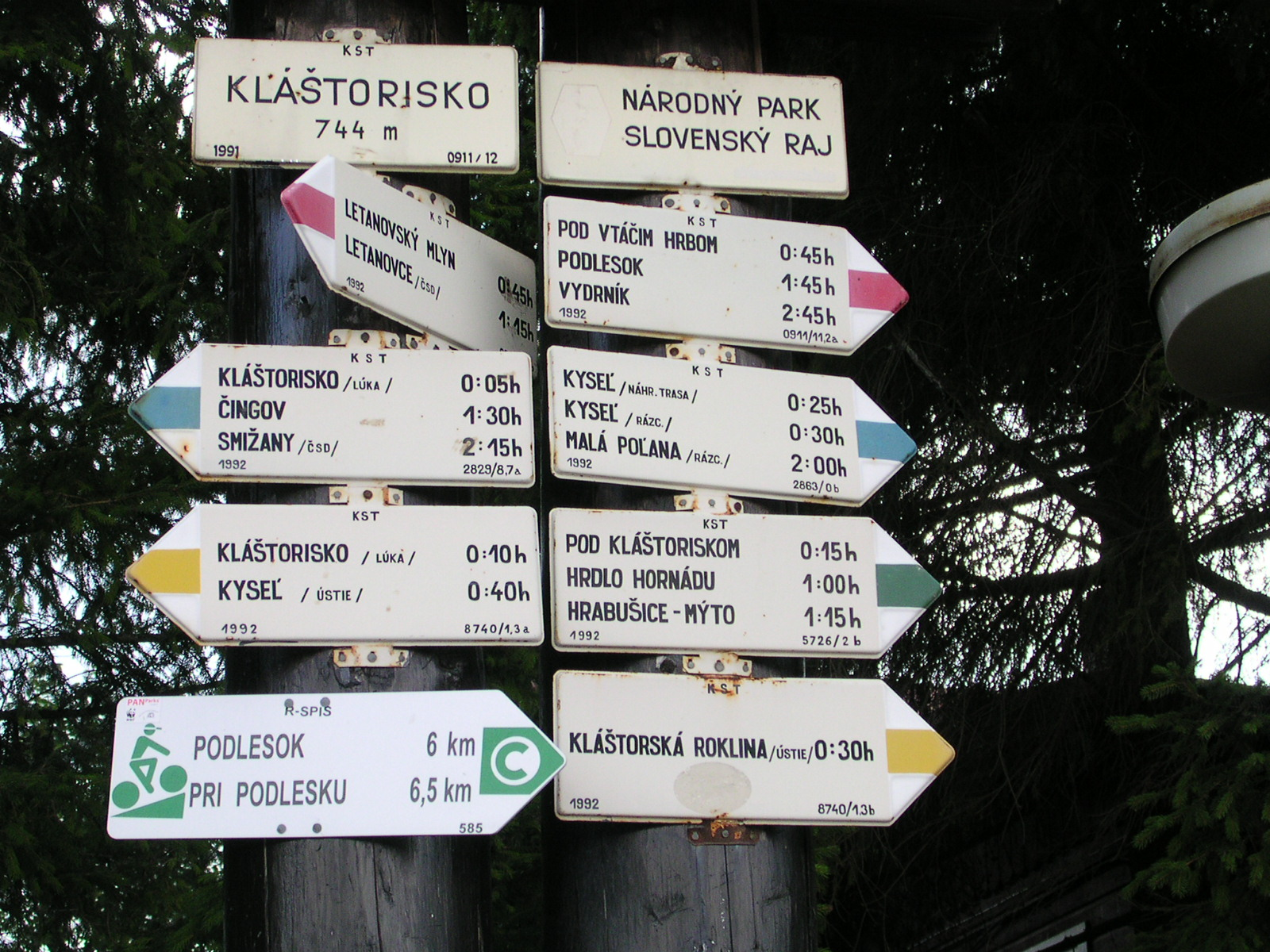 Hiking sign in the Slovakian Paradise in Kláštorisko Auteur/Author Romary août/August 2004